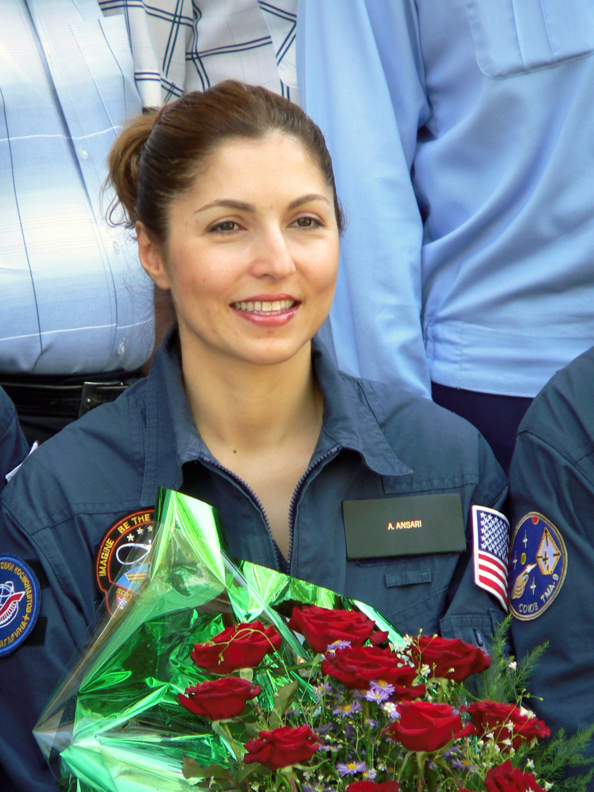 Spaceflight participant Anousheh Ansari participates in the traditional flag-raising ceremony at the Cosmonaut Hotel in Baikonur, Kazakhstan on Sept. 5, 2006 as the Expedition 14 crewmembers prepare for their launch Sept. 18 on a Soyuz TMA-9 spacecraft to the International Space Station.